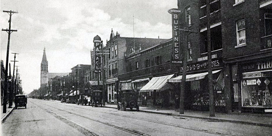 Wellington Street, looking west, Verdun in the 1930s